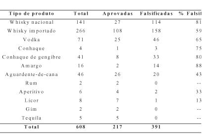 my work